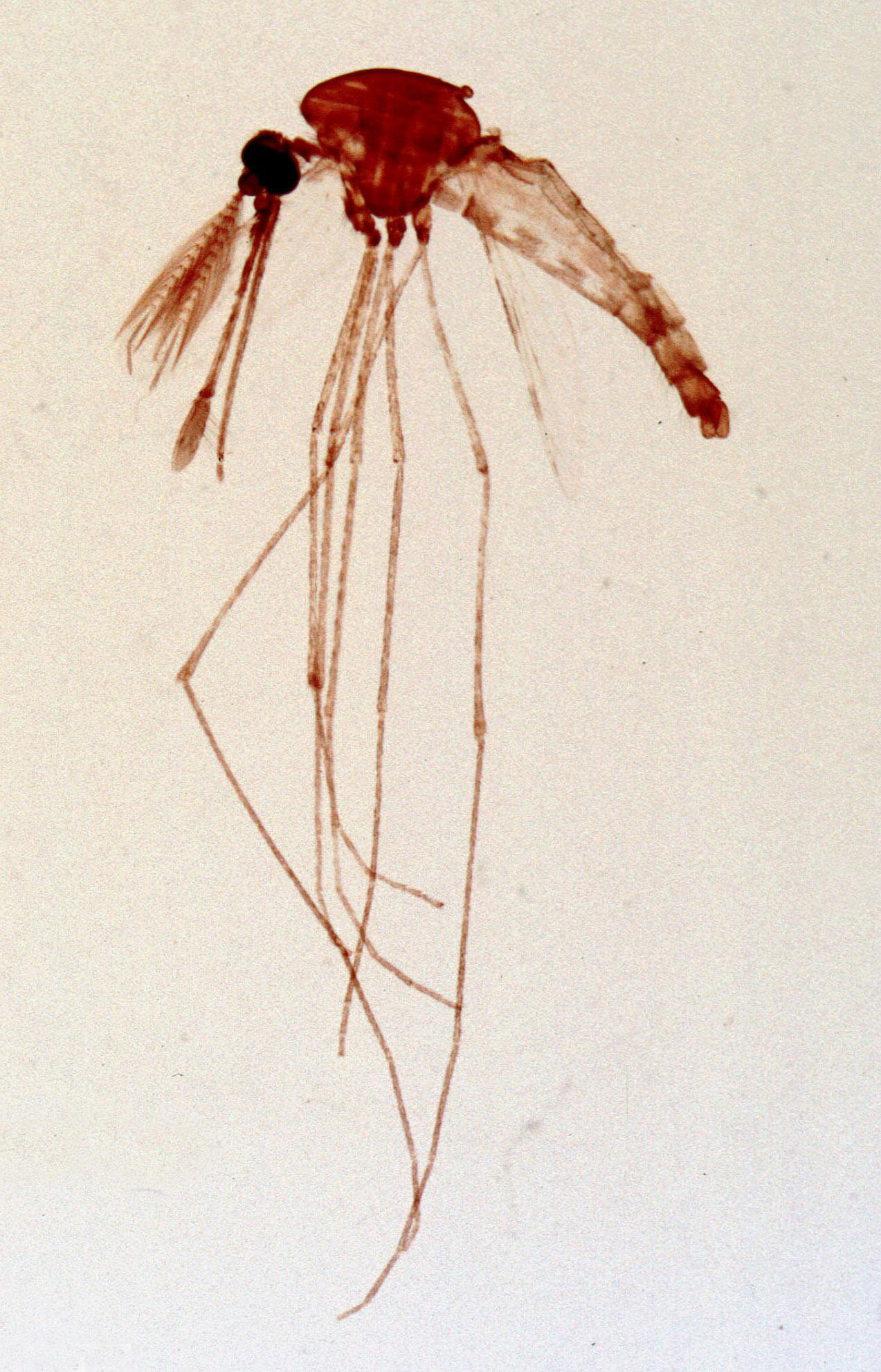 A male mosquito of the Anopheles genus, mounted on a microscope slide.